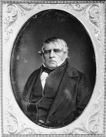 Peter Skene Ogden, late in life. Taken sometime before his death in 1854